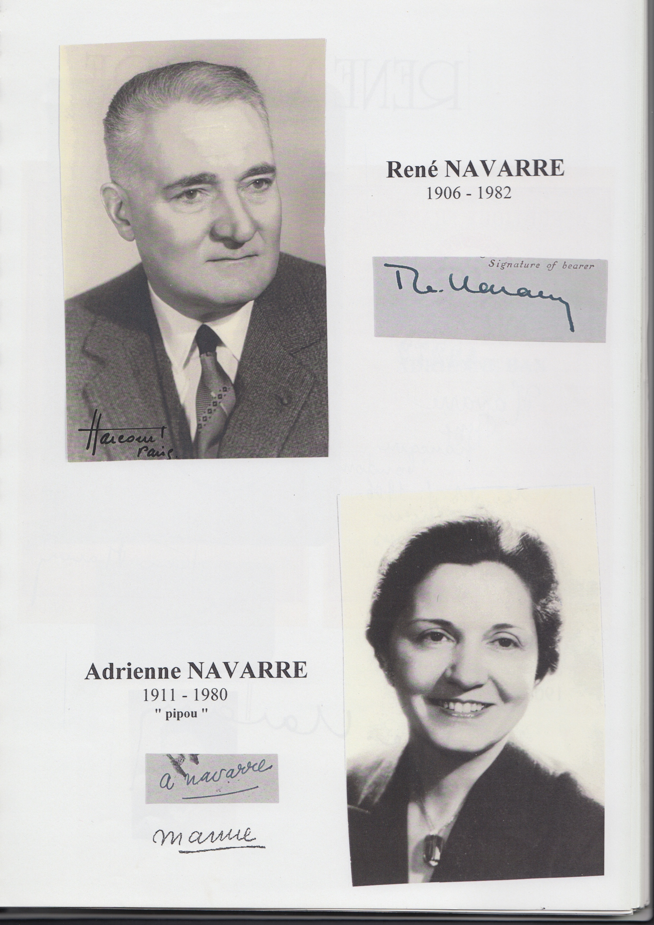 picture and signature of René Navarre and Adrienne Bax